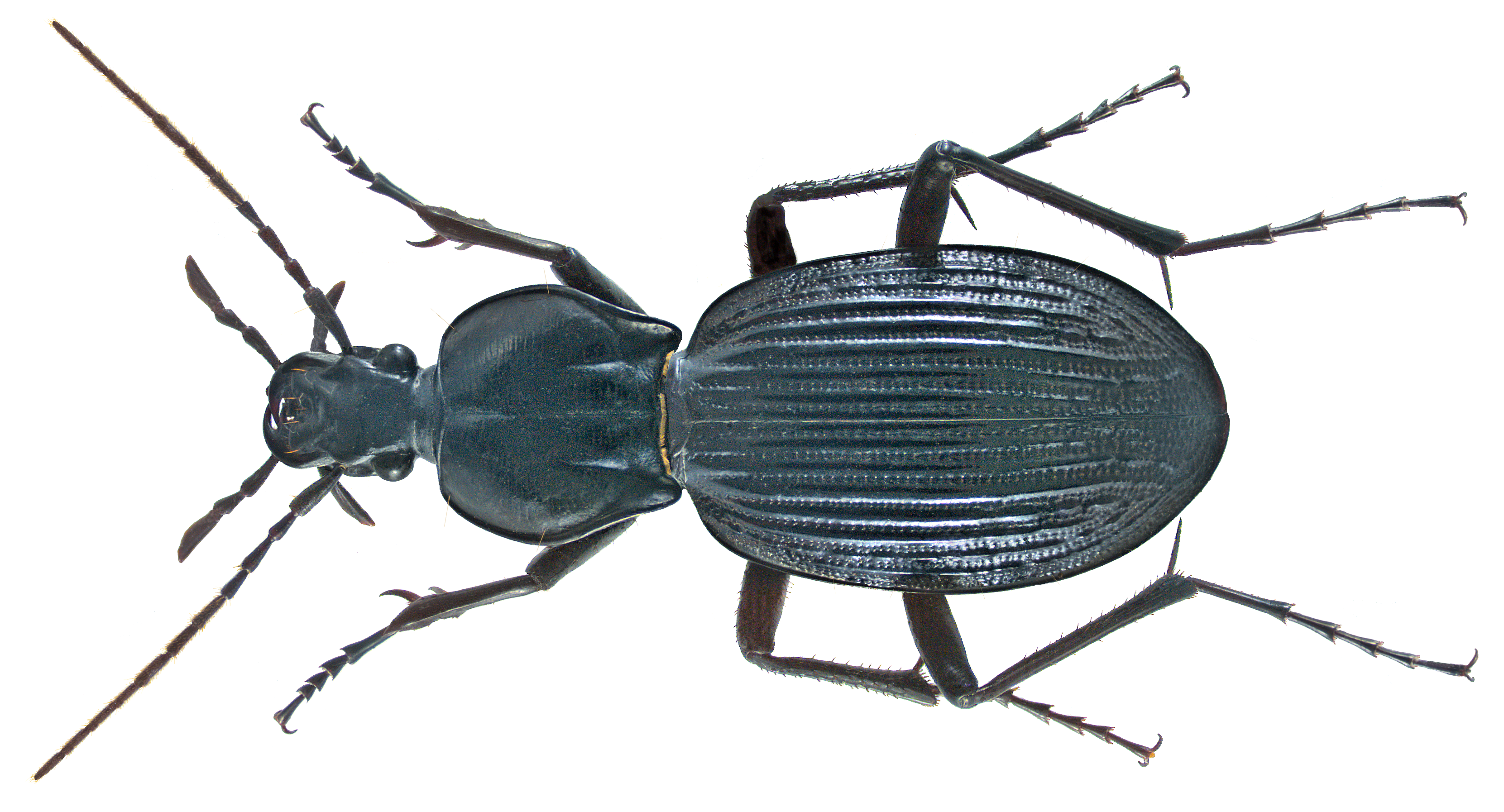 Family: Carabidae Size: 31 mm Location: Australia, NSW, Barrington Tops, Devils hole, pitfall traps leg.det. Vr.R.Bejsak-Colloredo-Mansfeld, I.-IV.2015 Photo: U.Schmidt, 2015